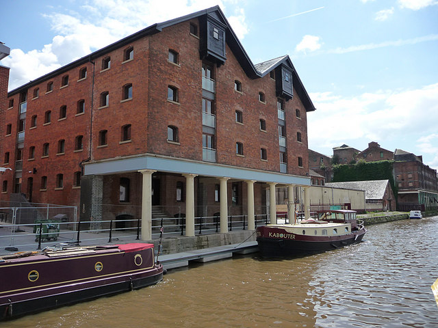 Converted warehouse on Bakers Quay